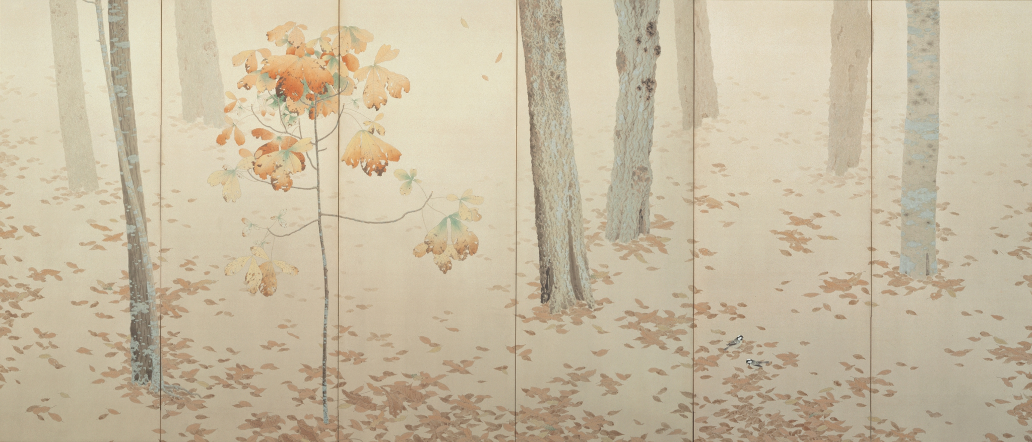 "Falling leaves"